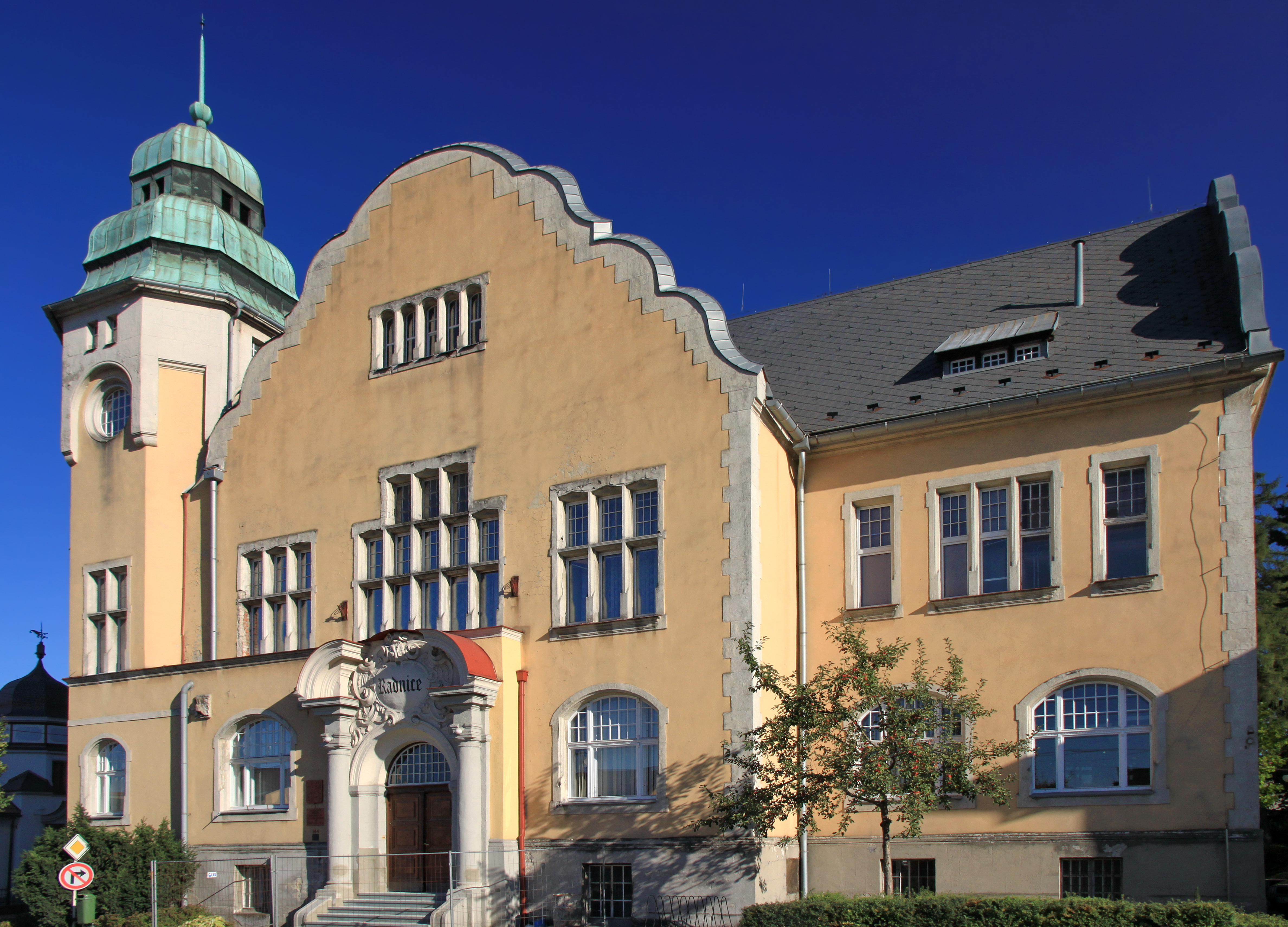 Jablunkov, city hall (house nr. 144)